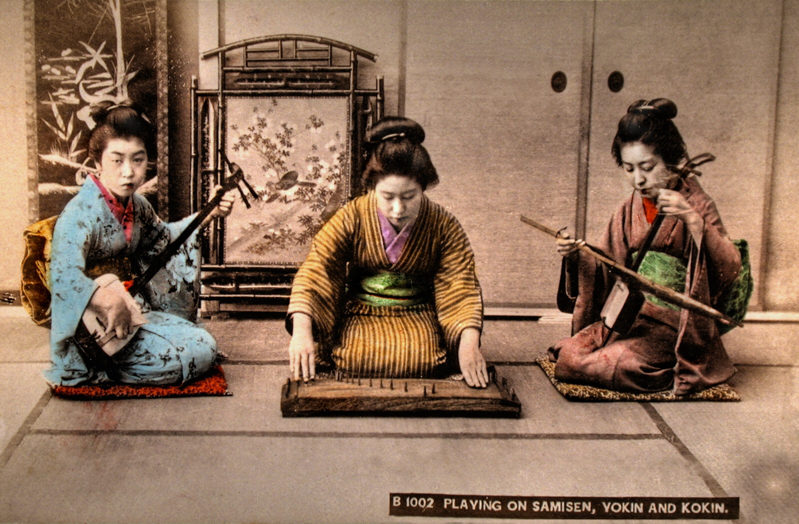 Japanese musicians playing sankyoku music, c. 1900. The instruments, from left to right, are shamisen (labeled as a samisen in the photo), yokin, and kokyu (labeled as a kokin in the photo).